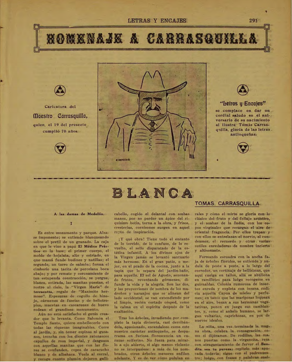 Homenaje Tomas Carrasquilla, Enero 1928